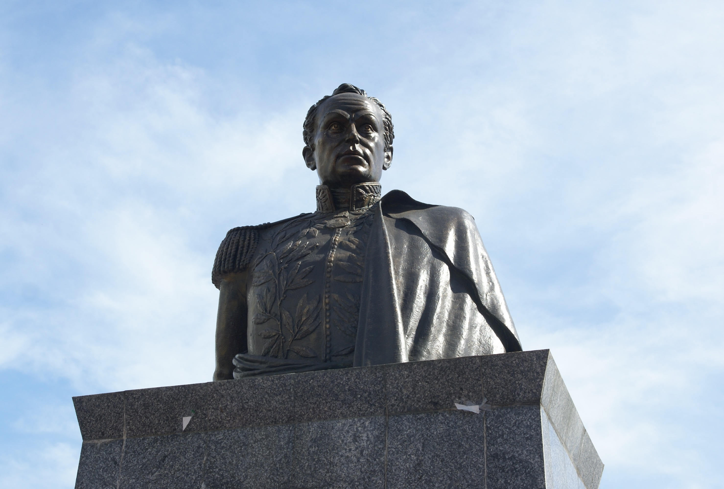 Bust of Simon Bolivar, Kerkplein, Paramaribo, Surinam. 1955.